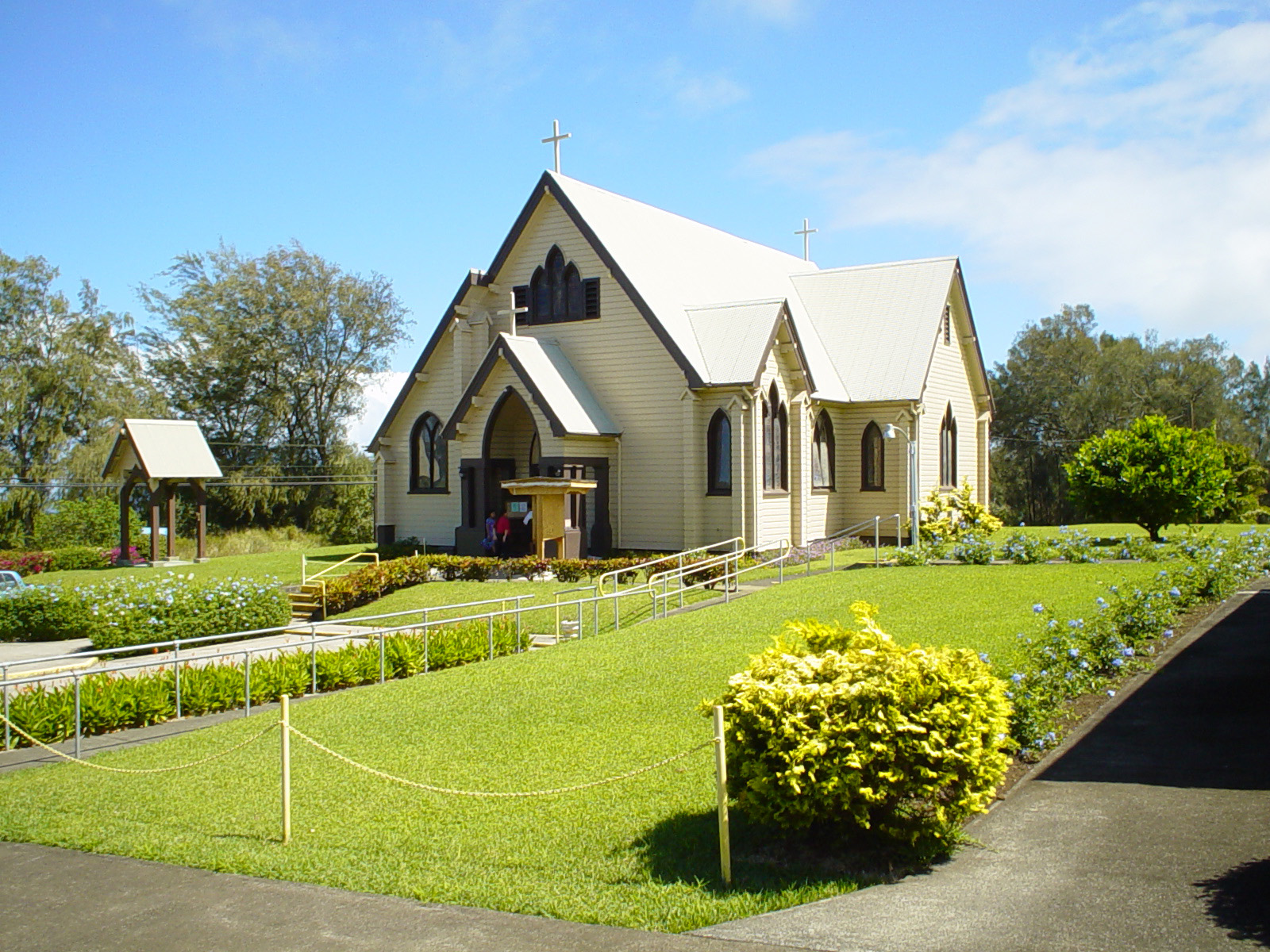 February 22, 2003, photograph looking north toward Upolu Point taken by Aloysius Patacsil of Sacred Heart Roman Catholic Church, Hawi, Kohala, West Hawaii Vicariate, Roman Catholic Diocese of Honolulu. The church, cruciform in architecture, includes beautiful stained-glass windows and is located next to Hawi Cemetery.